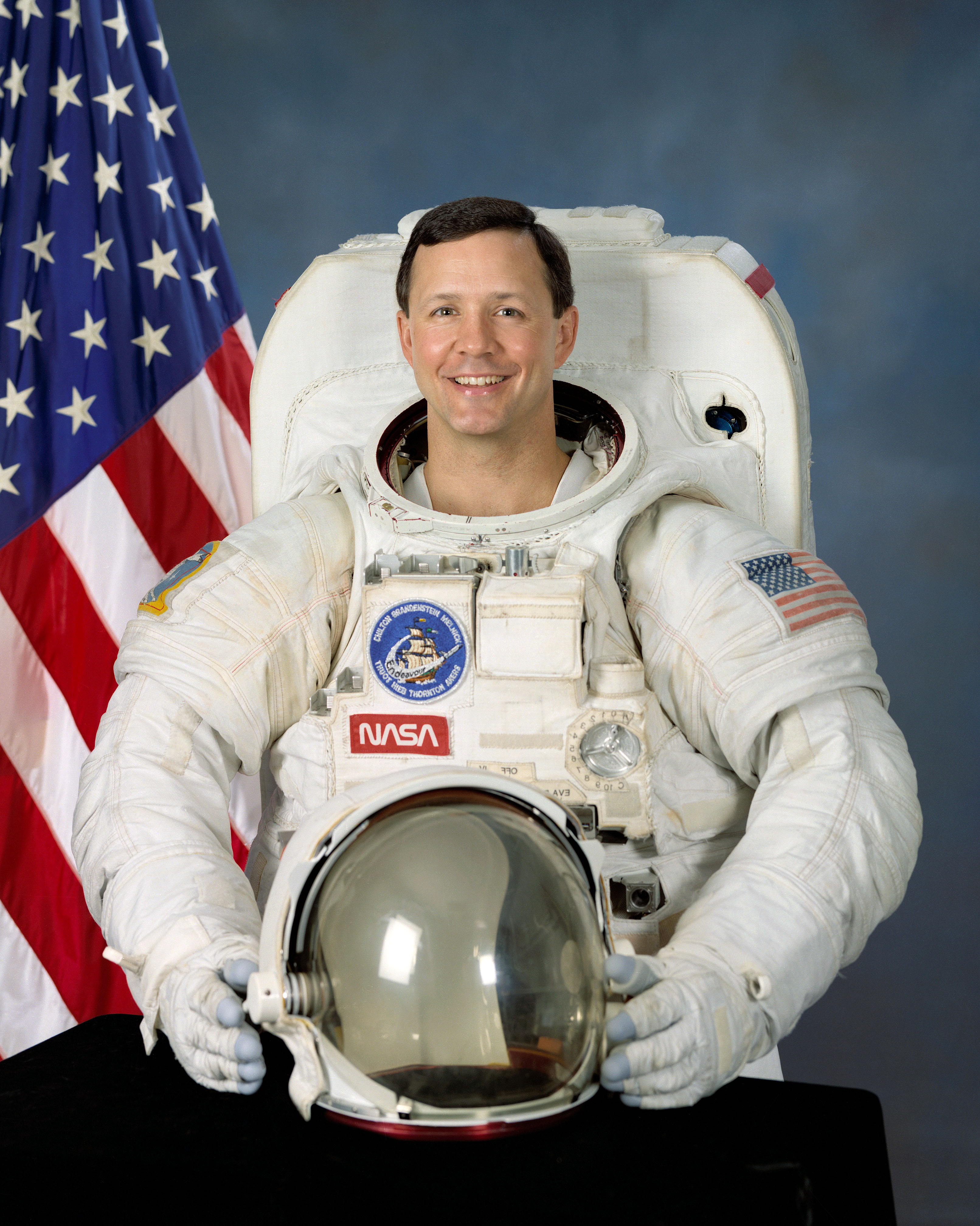 portrait astronaut Pierre Thuot